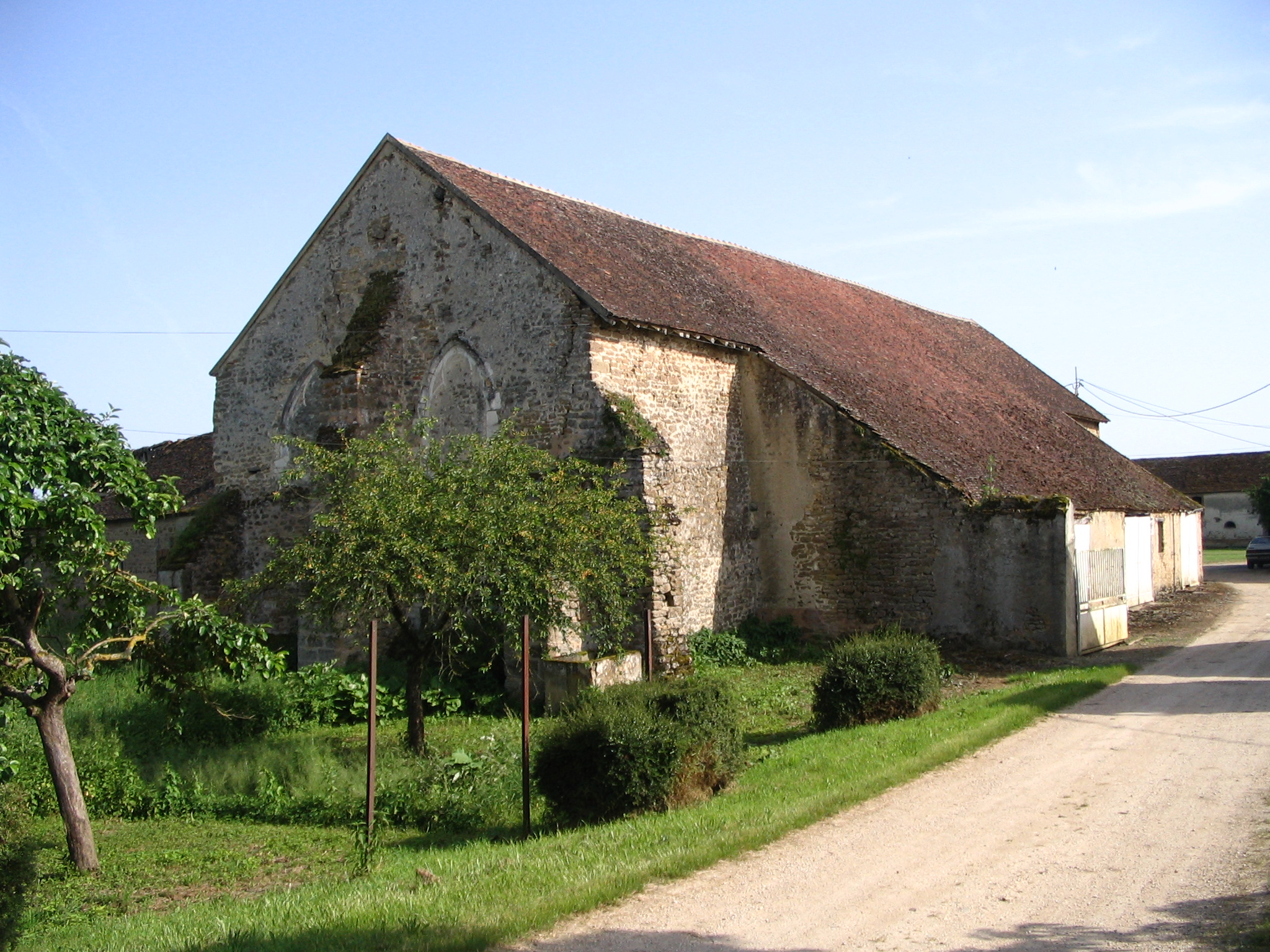 The medieval Crécy Barn, in Saint-Florentin (Avrolles), Yonne, France.